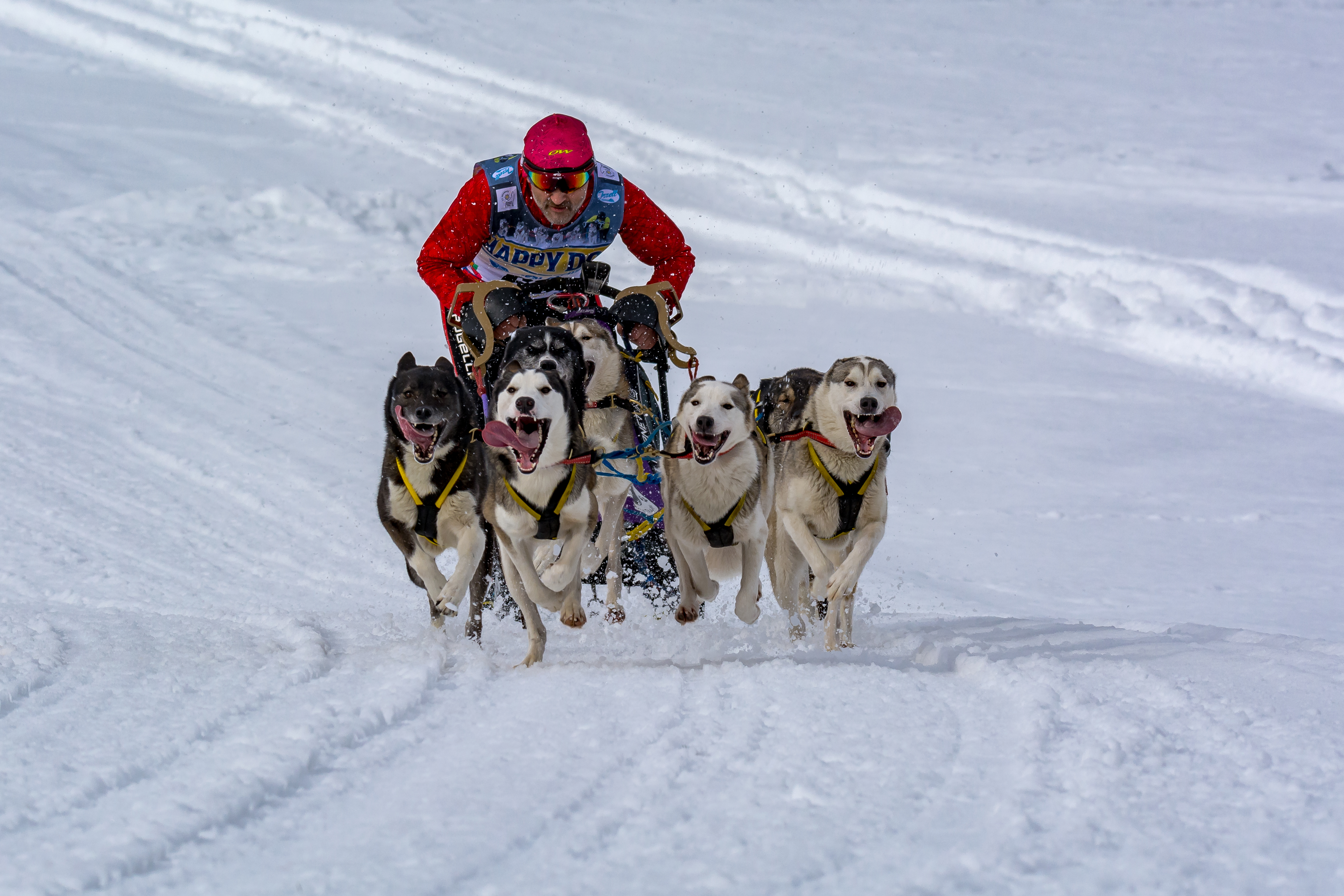 European Sleddog Championship Inzell 2017; Kunert ZBYSZEK, Category A1 (8 Siberian Huskies)